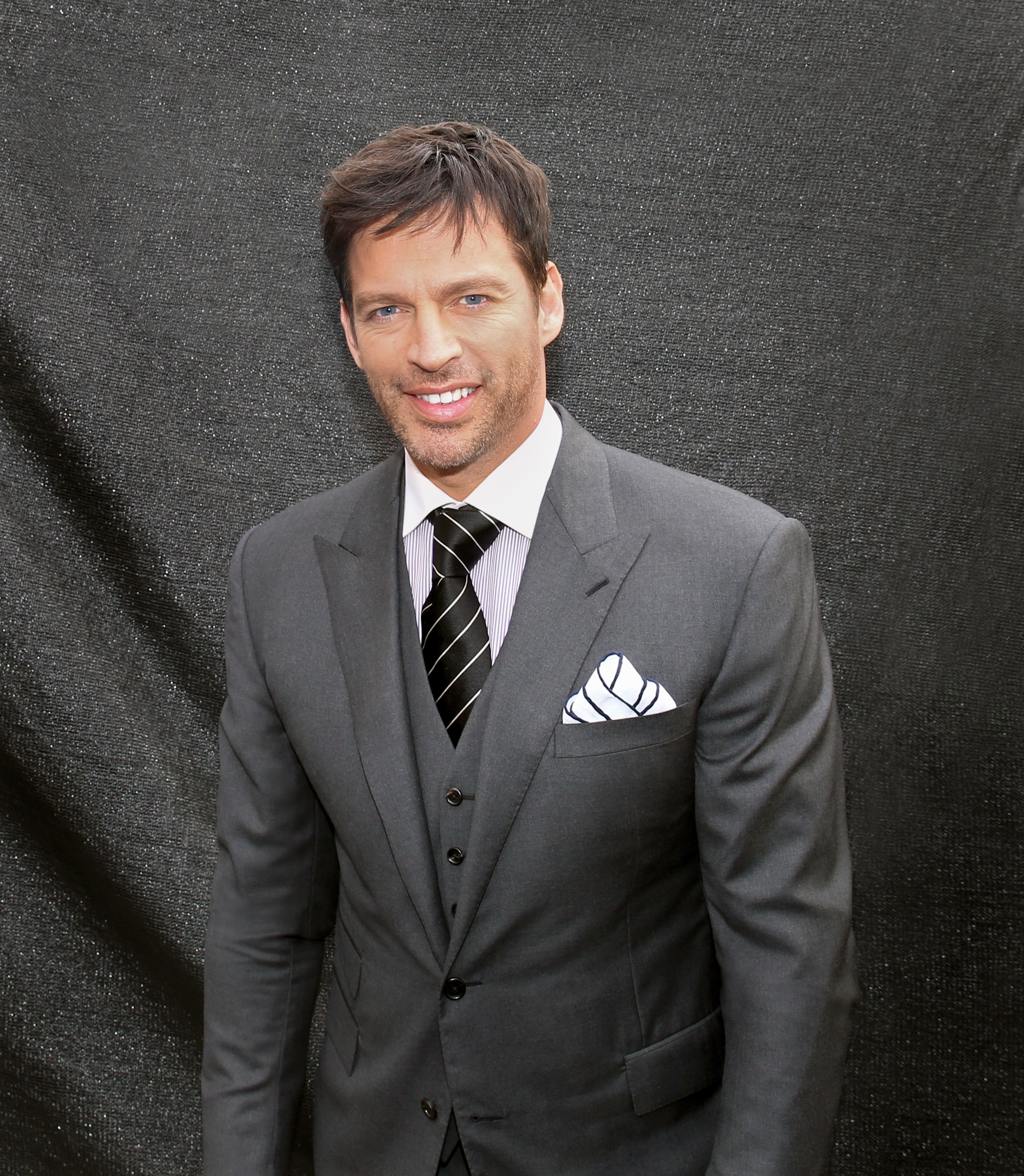 Harry Connick, Jr. 2014